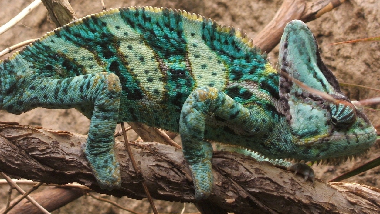 Cropped version of Image:Veiled chameleon, Boston.jpg: Chamaeleo calyptratus at the Boston Museum of Science